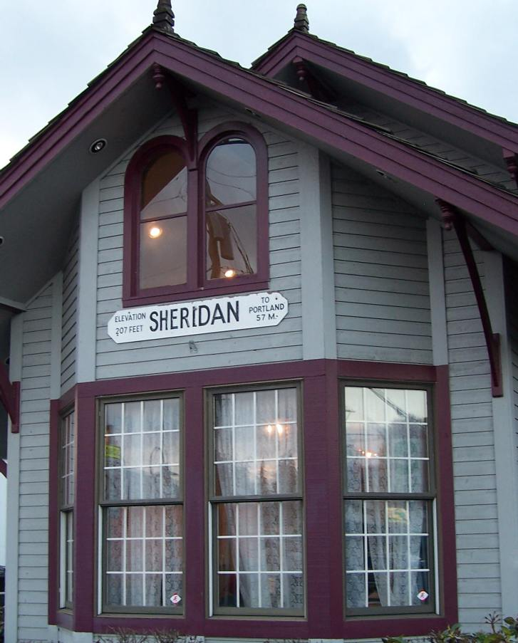 Sheridan city hall front 2006. former train depot